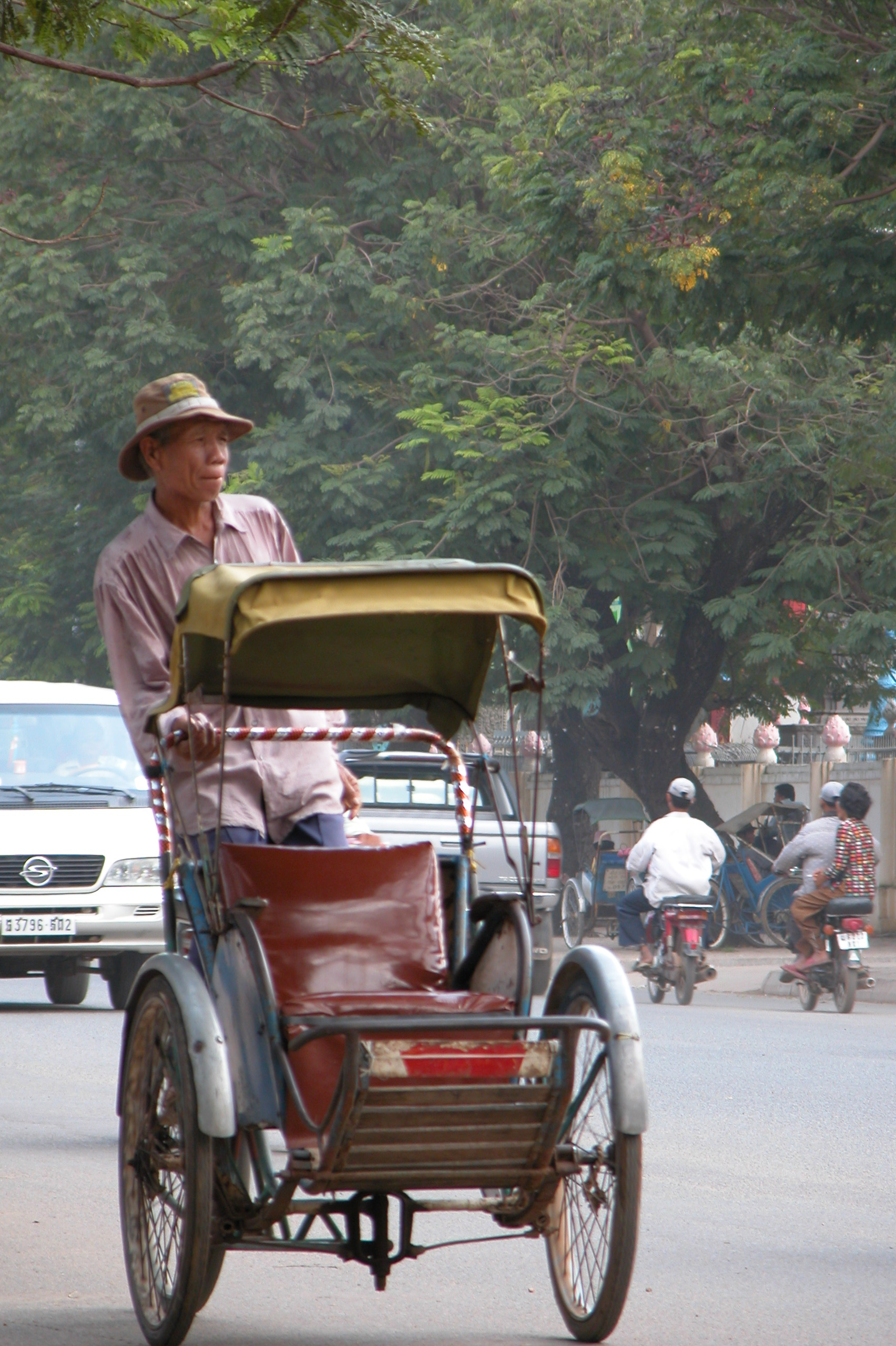 A cycle-rickshaw driver in Phnom Penh, Cambodia 2003. Photo: Erik Hooymans